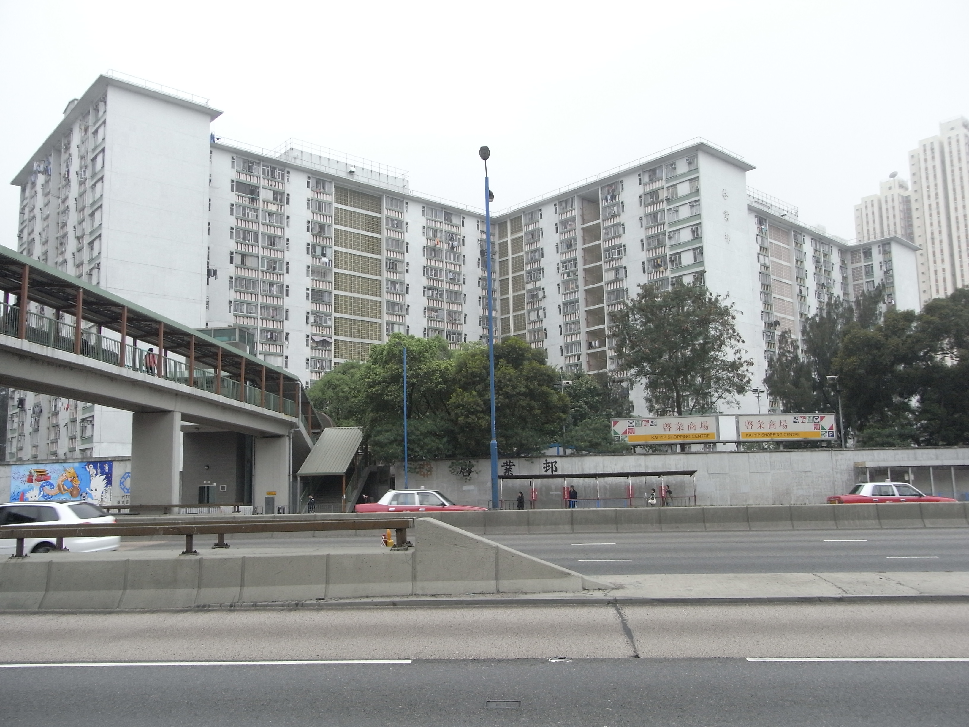 zh:2010年